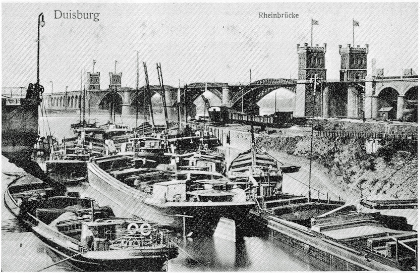 Picture of the Kultushafen Duisburg, Begin 20th. Century